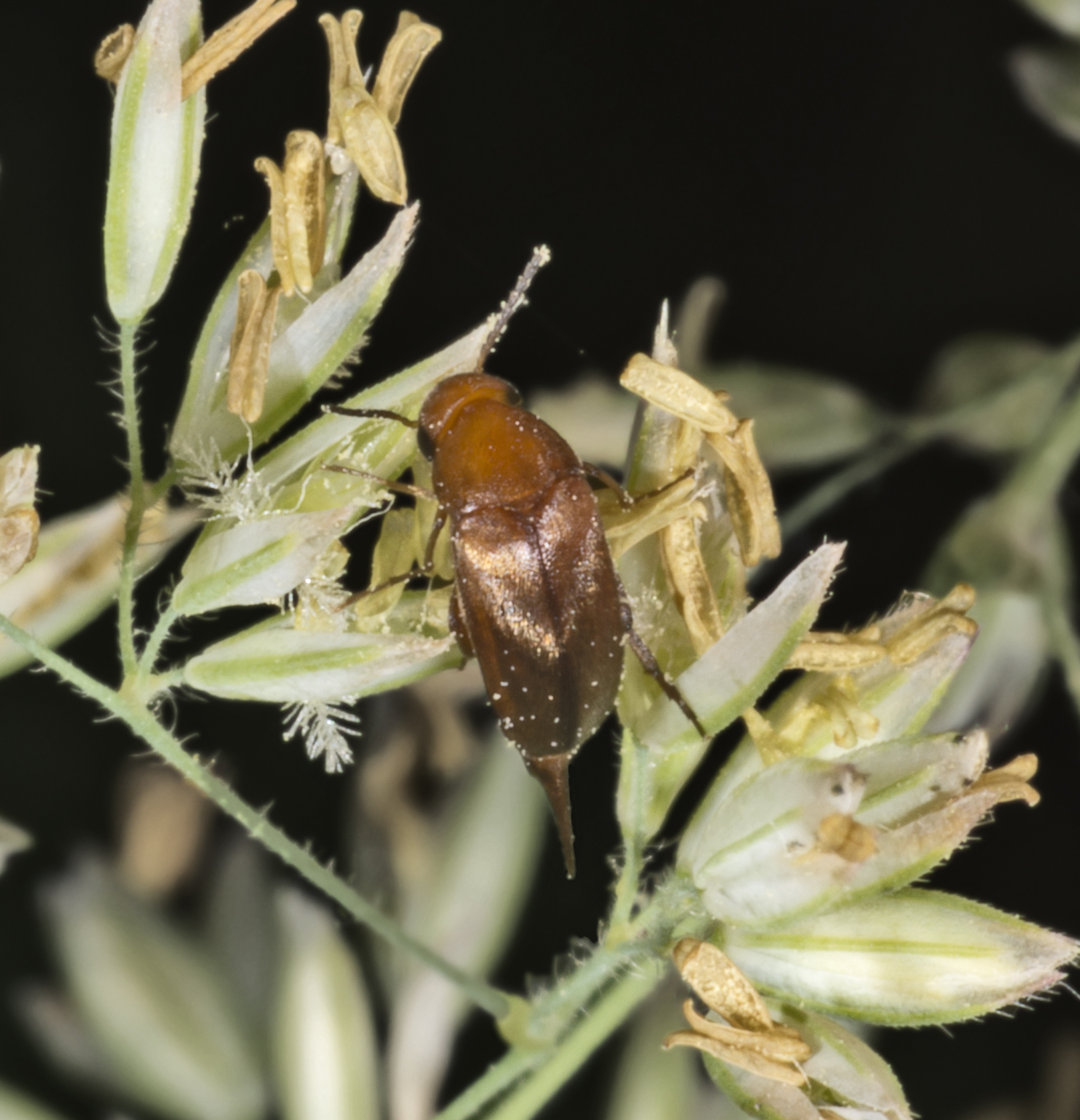 Mordellistena neuwaldeggiana.